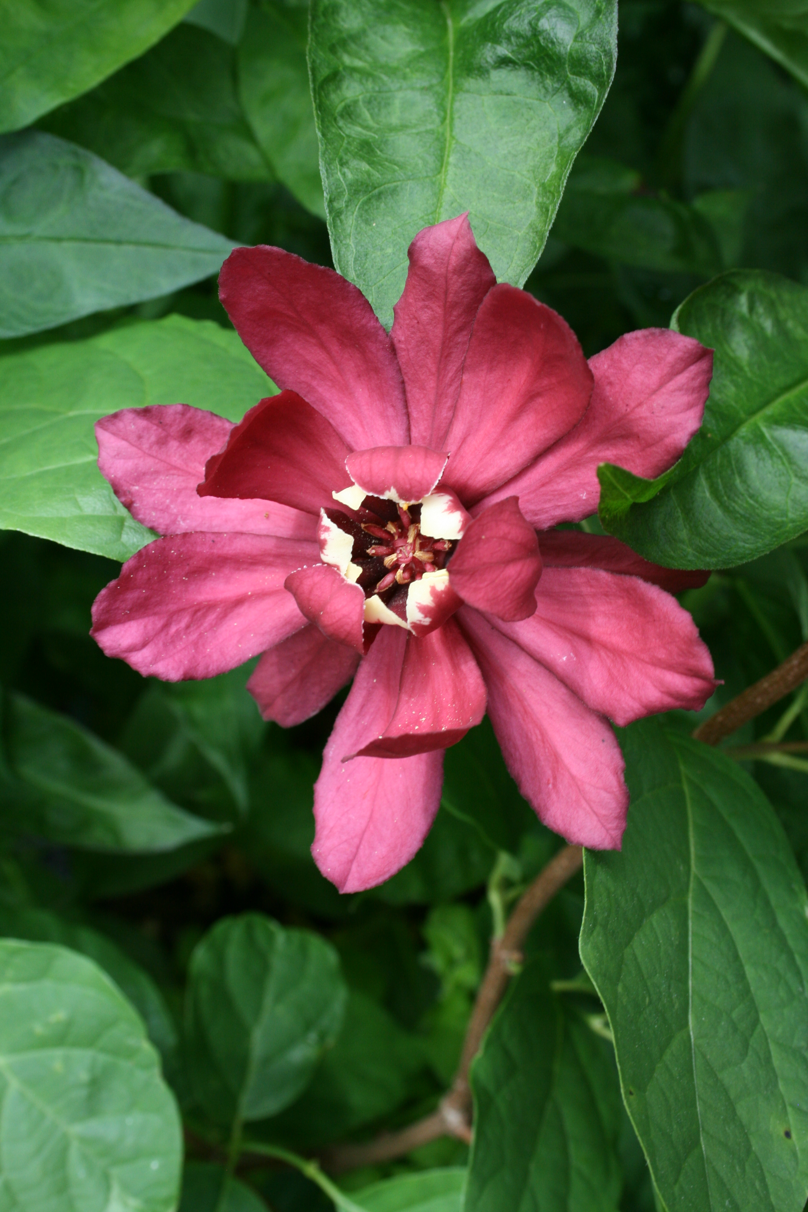 × Sinocalycalycanthus raulstonii 'Hartlage Wine, a hybrid between Calycanthus floridus and Sinocalycanthus chinensis.